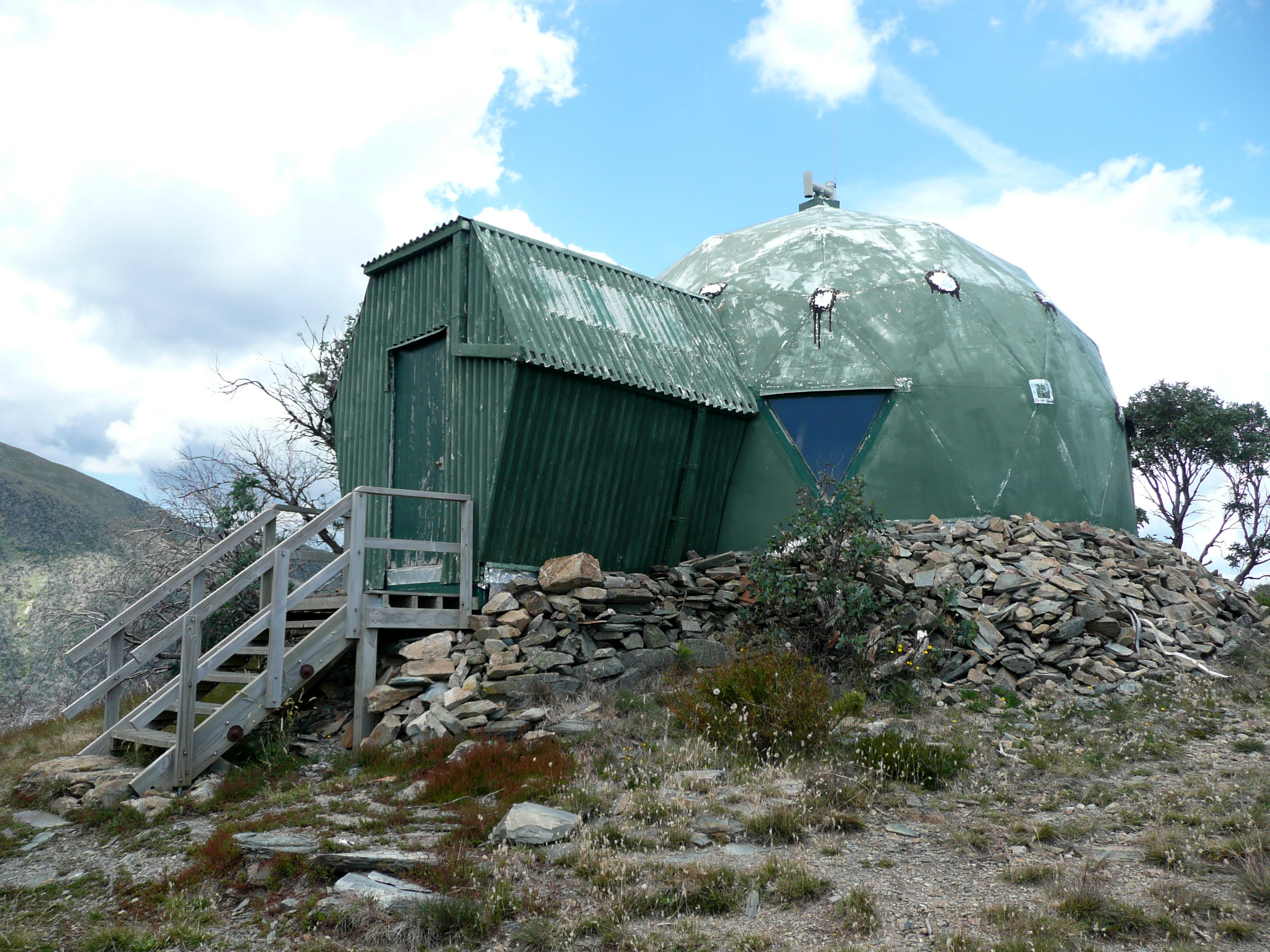 A photo of the Melbourne University Mountaineering Club (MUMC) hut on the north-western slopes of Mt Feathertop, near Harrietville in Victoria, Australia. Mt Feathertop, at 1922m is the second highest peak in Victoria and the hut is located just below the treeline at an altitude of 1620m.